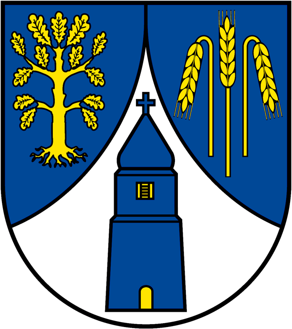 Coat of arms of Würrich